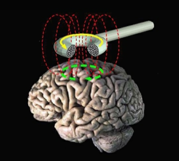 Transcranial magnetic stimulation is a noninvasive means of getting electrical energy across the insulating tissues of the head and into the brain. A powerful and rapidly changing electrical current is passed through a coil of wire applied near the head. The magnetic field, oriented perpendicular to the plane of the coil passes virtually unimpeded through the scalp and skull. In the brain, the magnetic field produces currents in the induced electrical field lying parallel to the plane of the coil. These currents are able to excite neural processes lying in the plane of the induced field in a manner roughly analogous to direct cortical stimulation with electrodes. TMS can be a physiological probe of cortical cortical function for clinical and basic neurophysiology. It has been used to alter the responsiveness of human brain circuits and may have therapeutic applications. DC brain polarization is a decades old technique for modulating the activity of neural tissues. These effects are highly selective for the polarity and the orientation of neurons in the field. The older literature contains instances of its ability to produce overt changes in behavior and newer studies show that quantifiable alterations in human cortical responses can be produced safely. Investigators use DC fields to try to modulate and improve human cognitive performance.